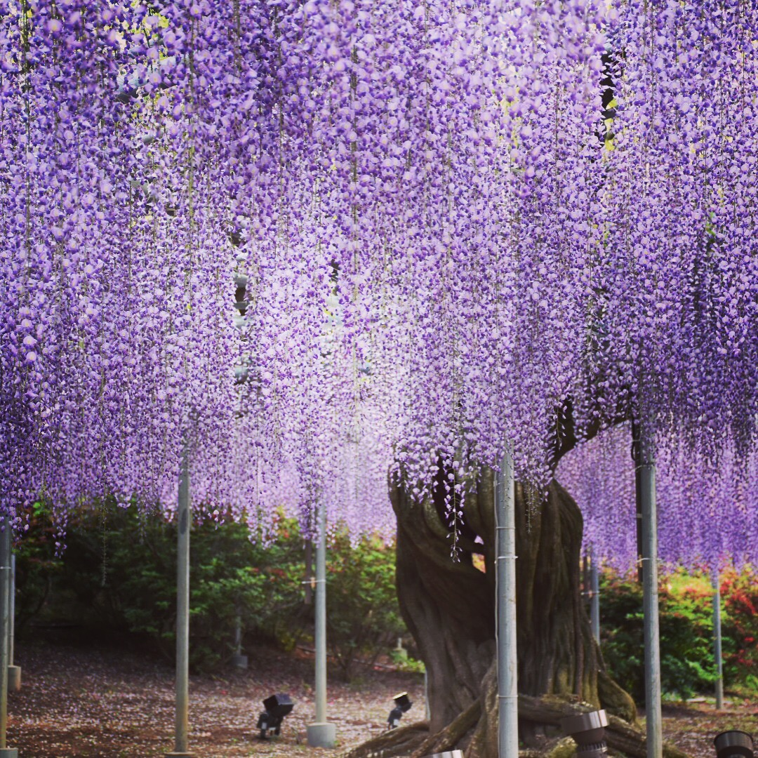 Wisteria @ Ashikaga flower park ,Tochigi, Japan 1 May 2016